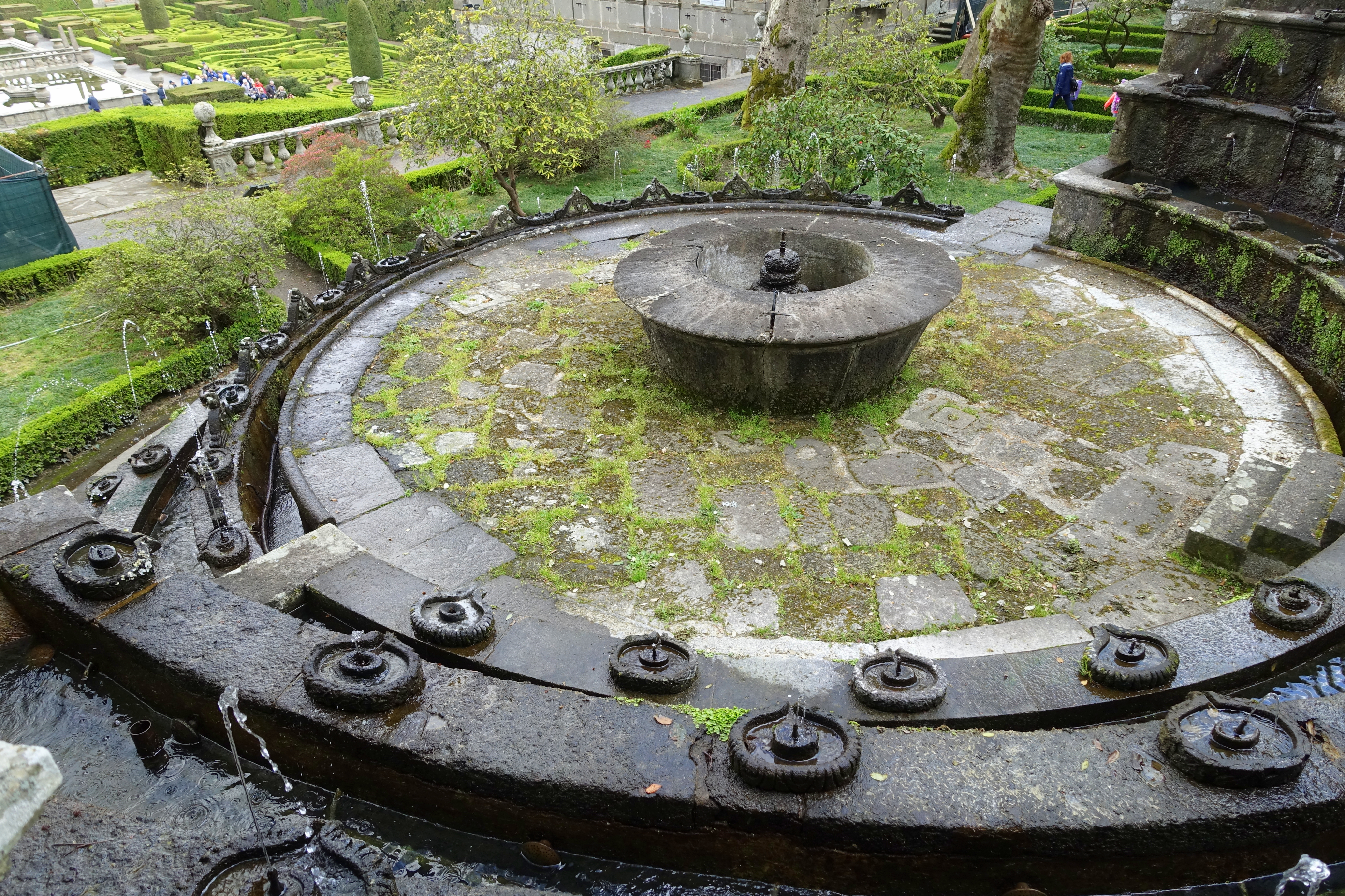 Fountain of the Lamps - Villa Lante, Bagnaia, Italy.